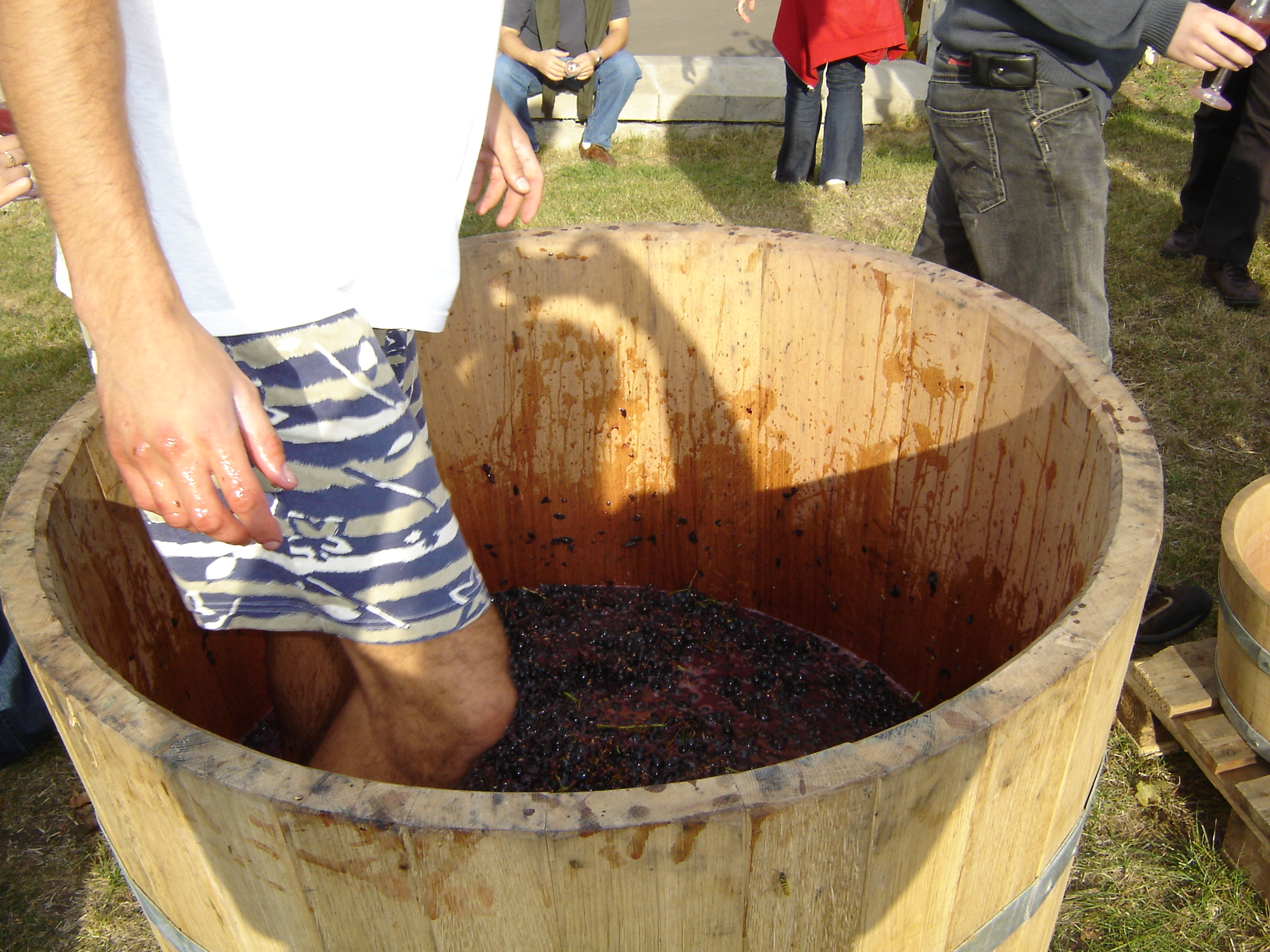 Crushing grapes by feet in the Hungarian wine region of Eger